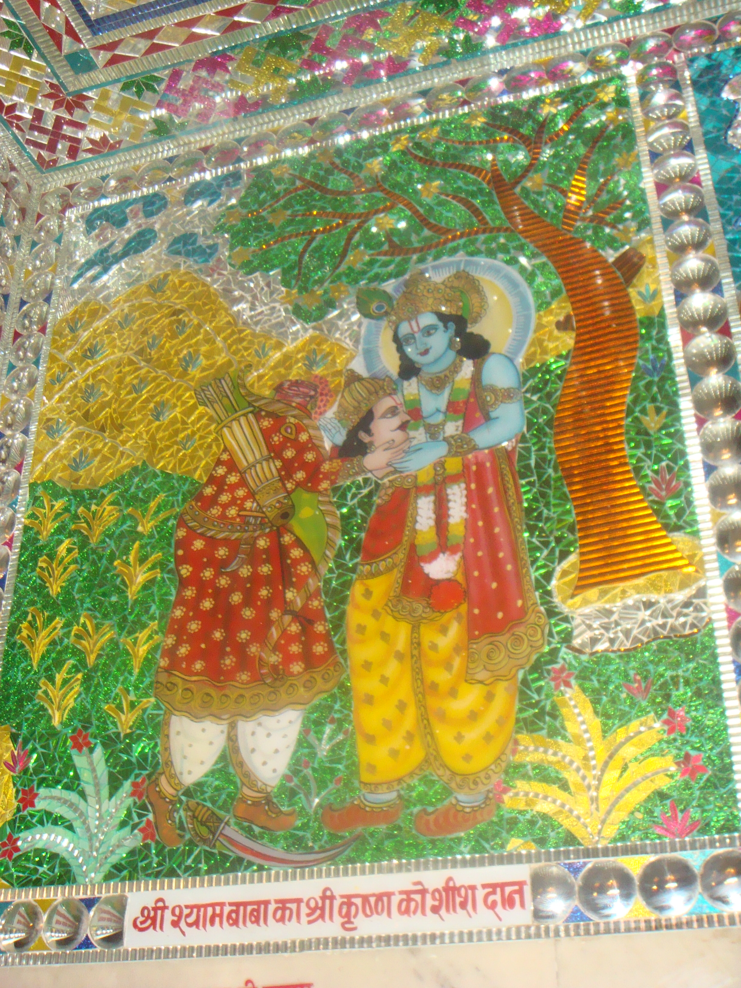 Baba Shyam donating his head to Shri Krishna, in the art, hanging in Reengus temple.